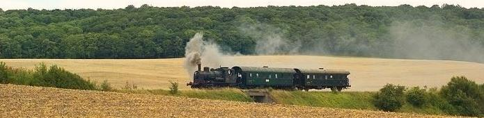 train at vigy